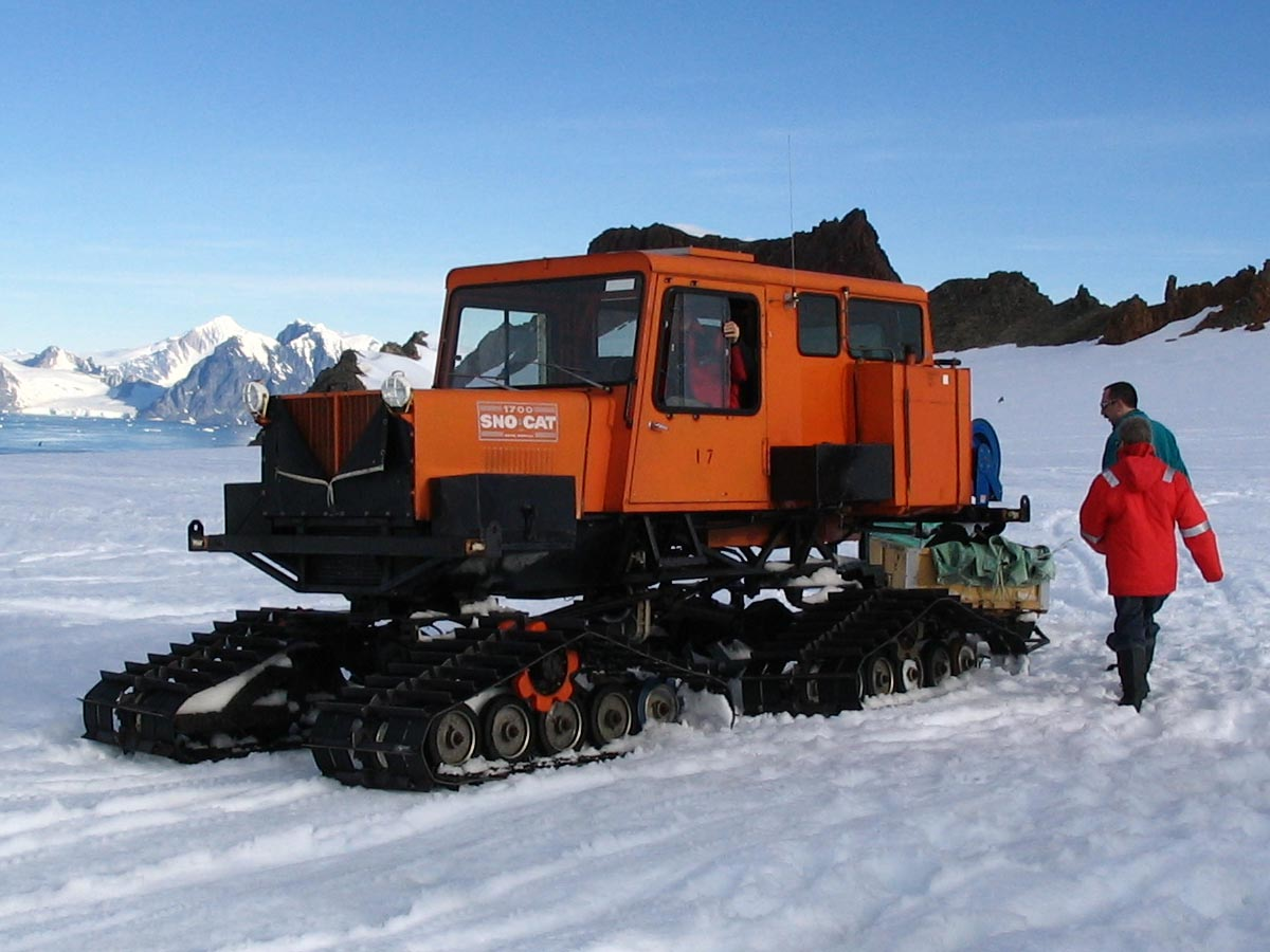 Tucker Sno-Cat at Rothera, 2005/01. Image by Tom L-C.